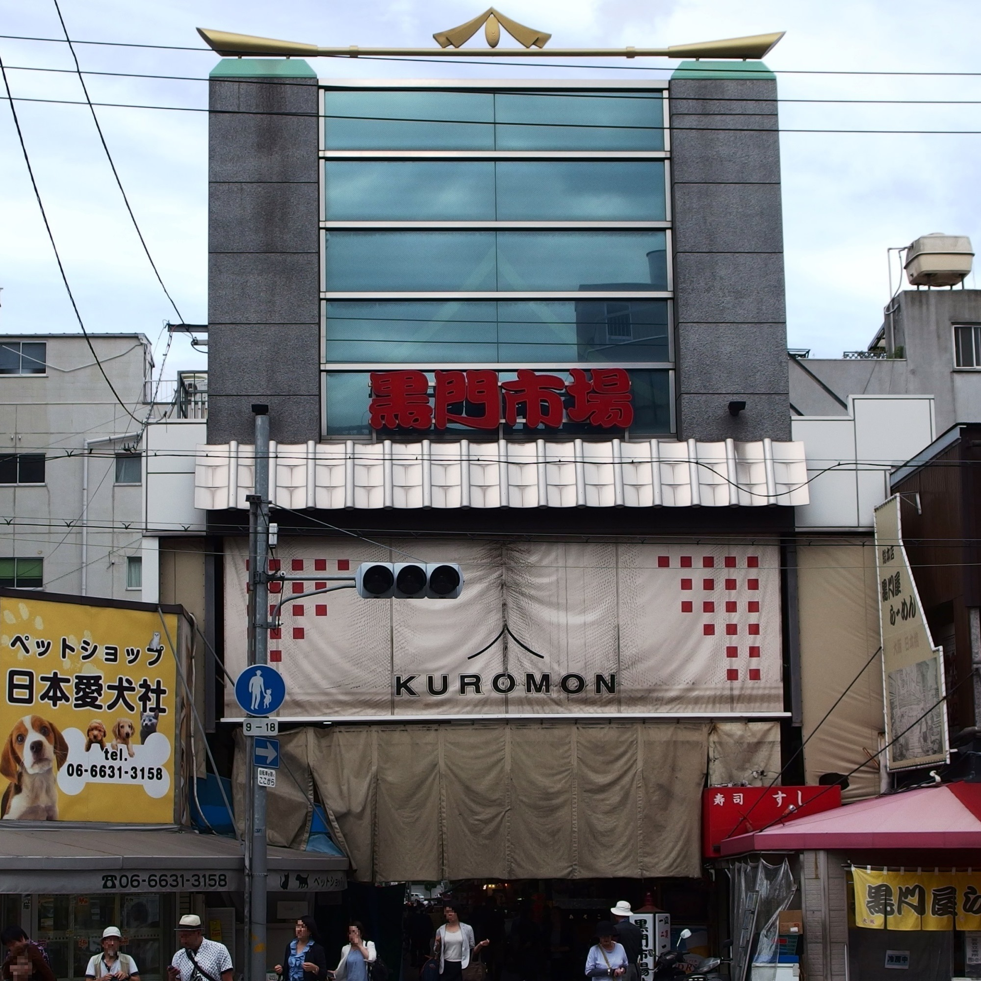 Kuromon-ichiba, Osaka,Osaka Prefecture, Japan